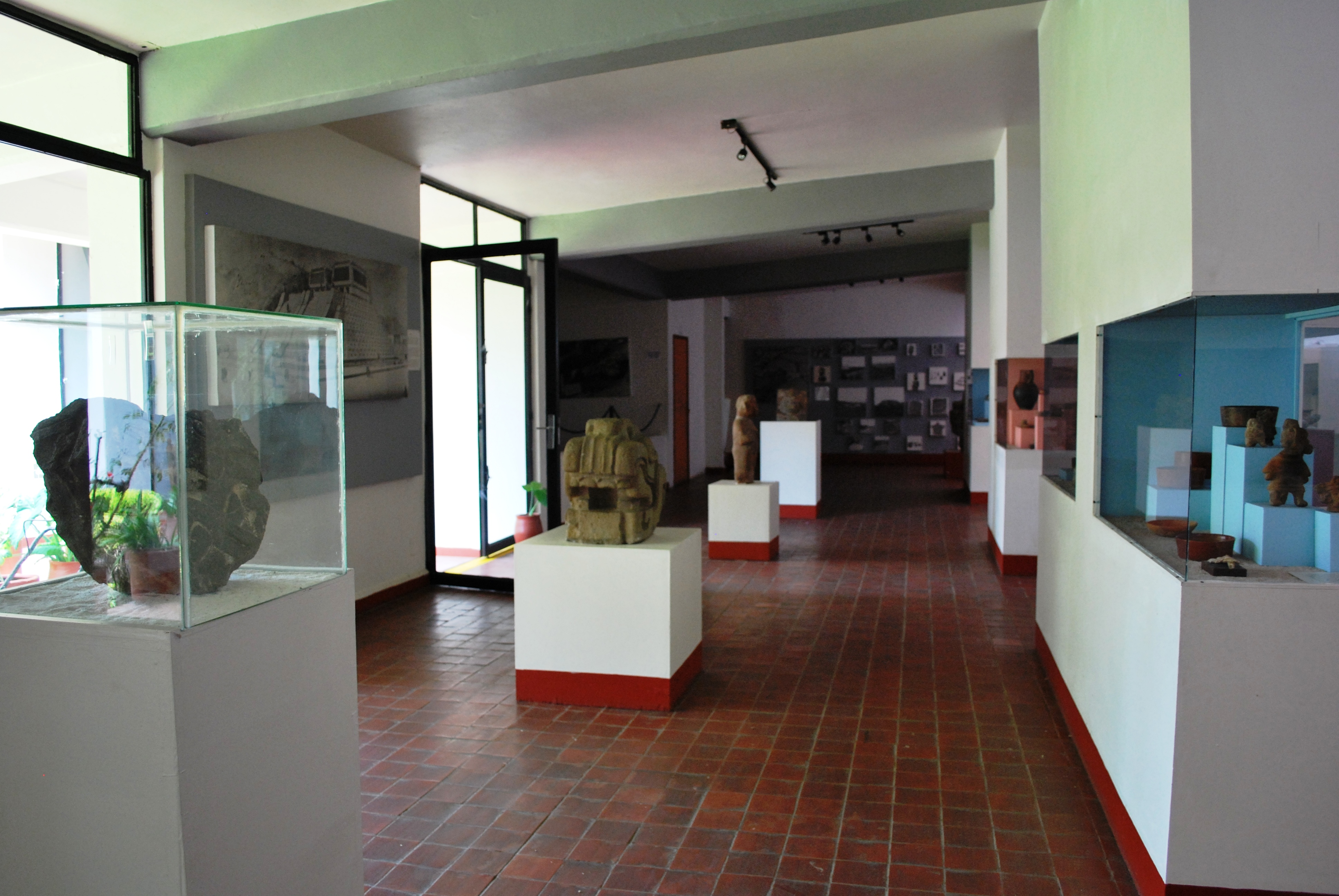 ONe of the hallways in the Teotenango site museum in Tenango del Valle, Mexico State